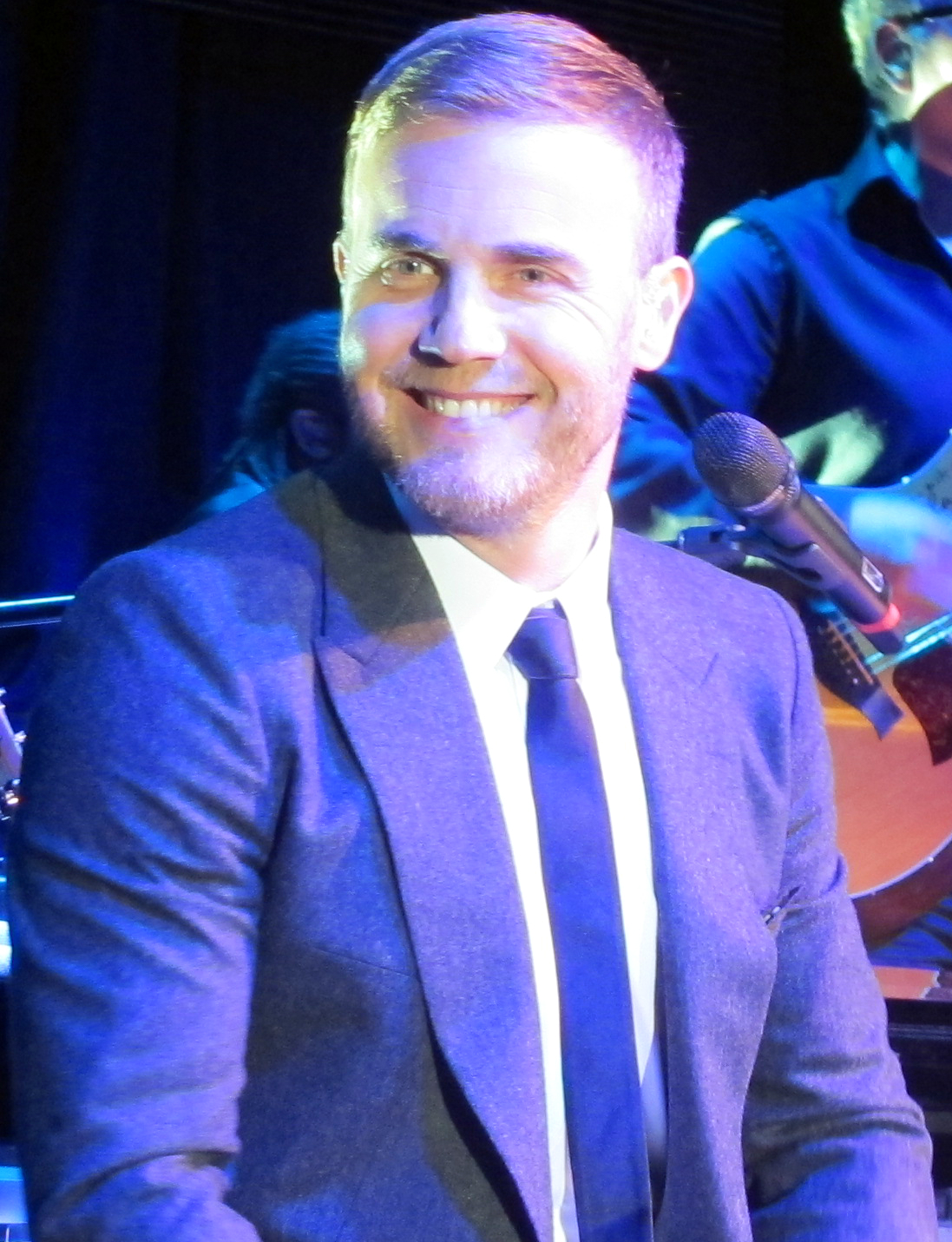 Gary Barlow: In concert in 2012